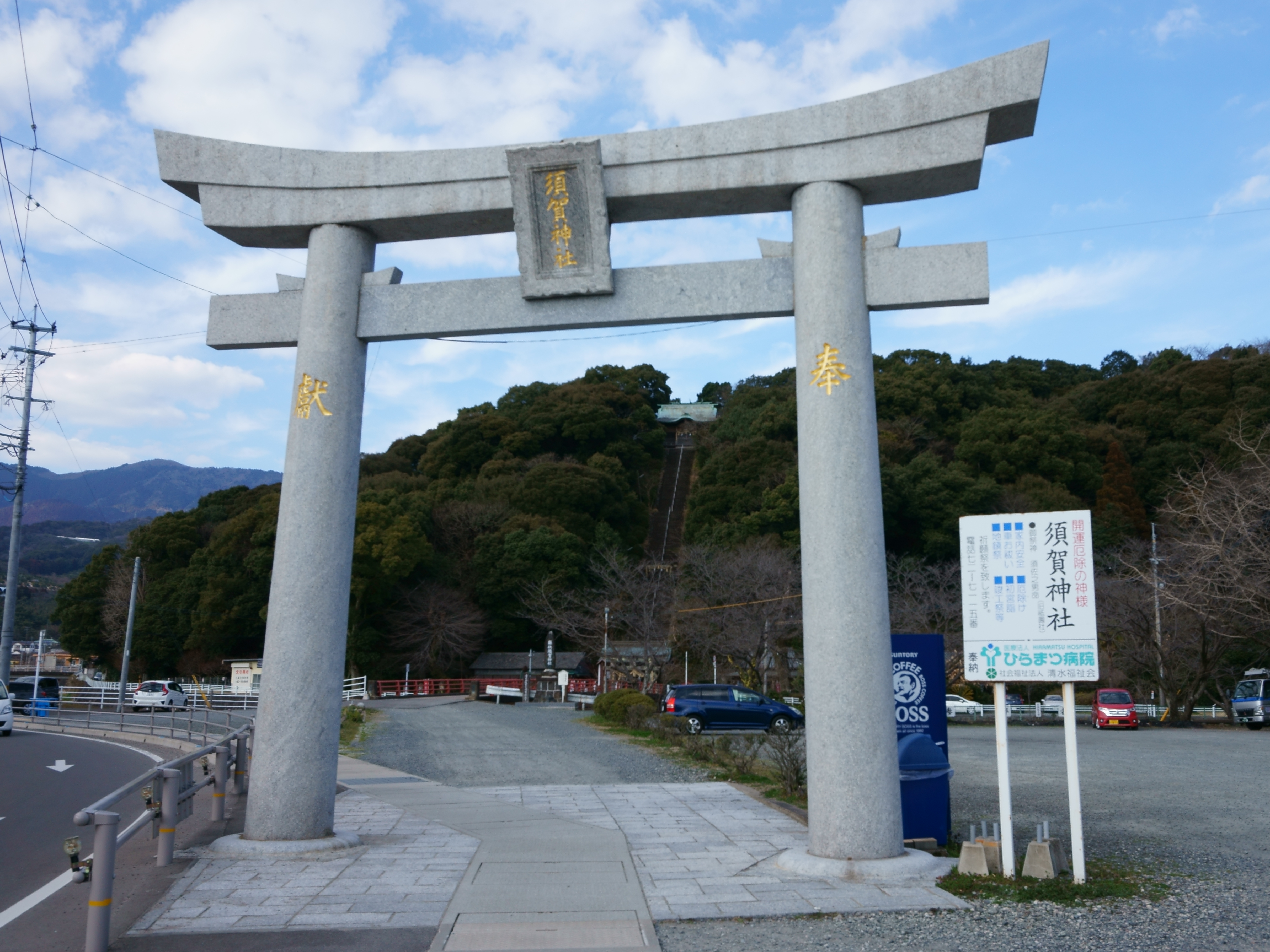 A Torii of Suga Shrine, in Ogi city. It facing a road.